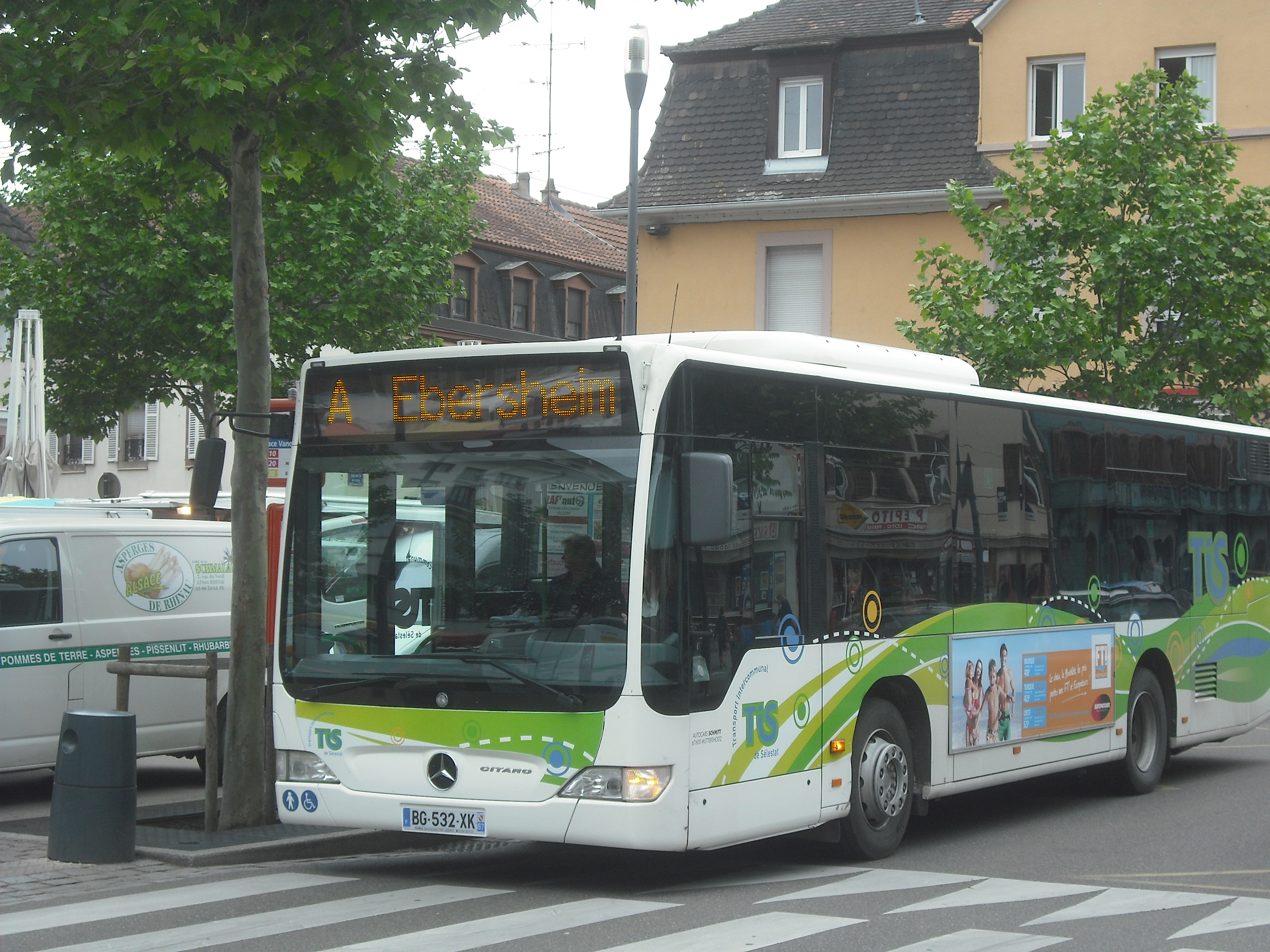 Bus de la compagnie TIS de Sélestat.